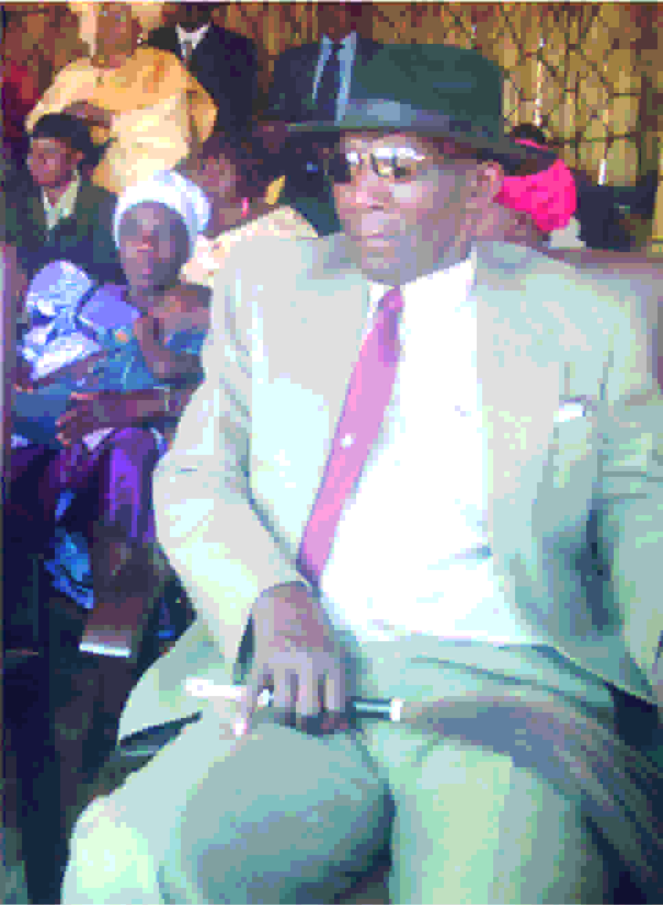 Chief Mwene Kandala Sakwiba Libimba at the conation and restoration of the Mbunda Kingdom in Lumbala Nguimbo, Moxico Province, Angola in 2008.